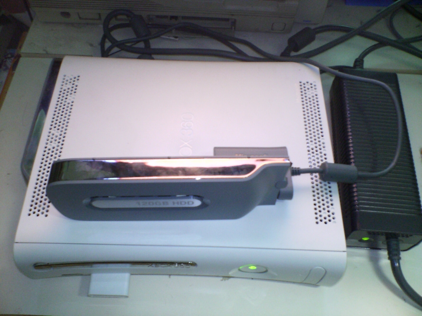 Connection to Transfer data from 20GB HDD to 120GB HDD